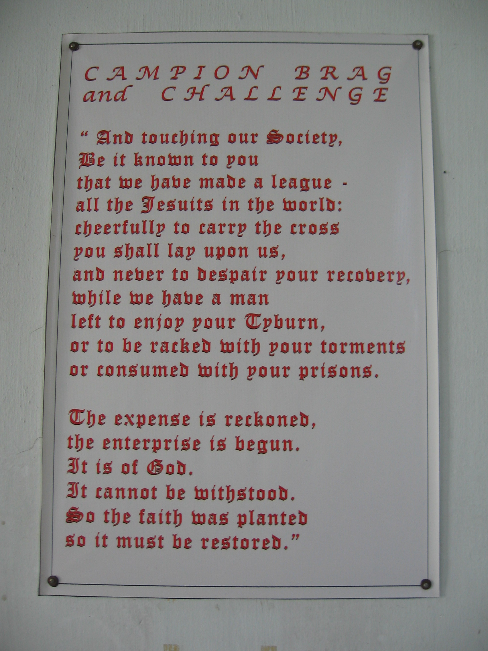 The famous 'Brag and Challenge' of Jesuit Saint Edmund Campion before he was put to death (executed), in London